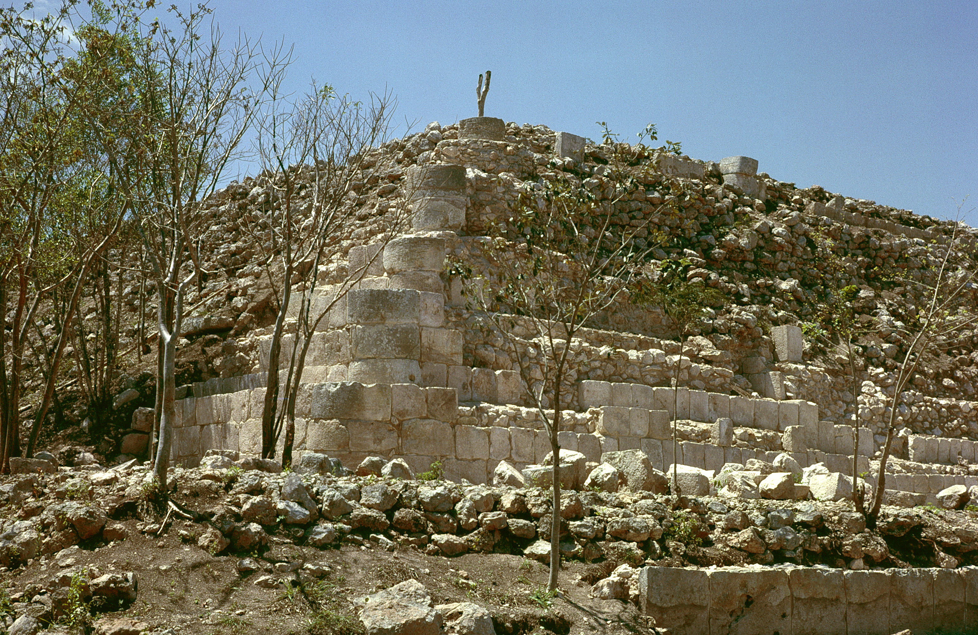 Uxmal, Yucatan, Mexico: Palacio del Gobernador, platform northeast corner